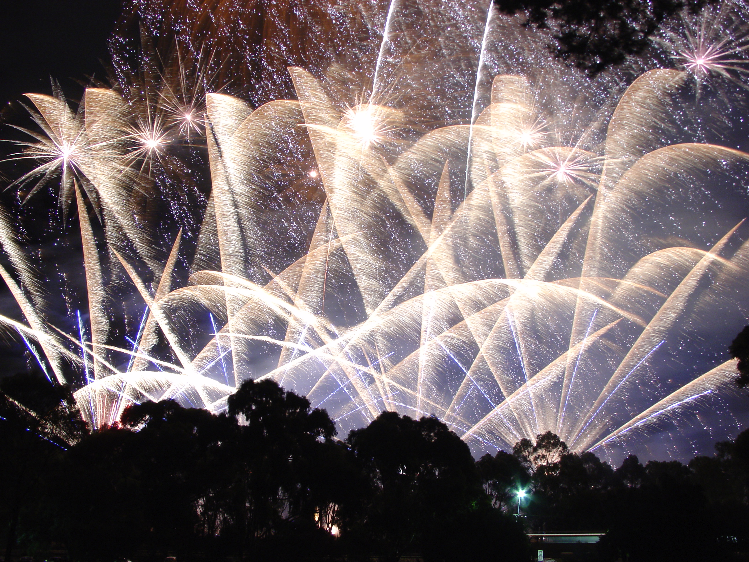 End of Skyshow 2006 seen from golf course, corner of Ward Street and Mills Terrace, North Adelaide, Australia. Taken 9:40pm, 18 February 2006 with a Sony Mavica. Taken by Alex Sims.